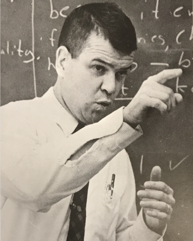 Teaching in the early 1960's